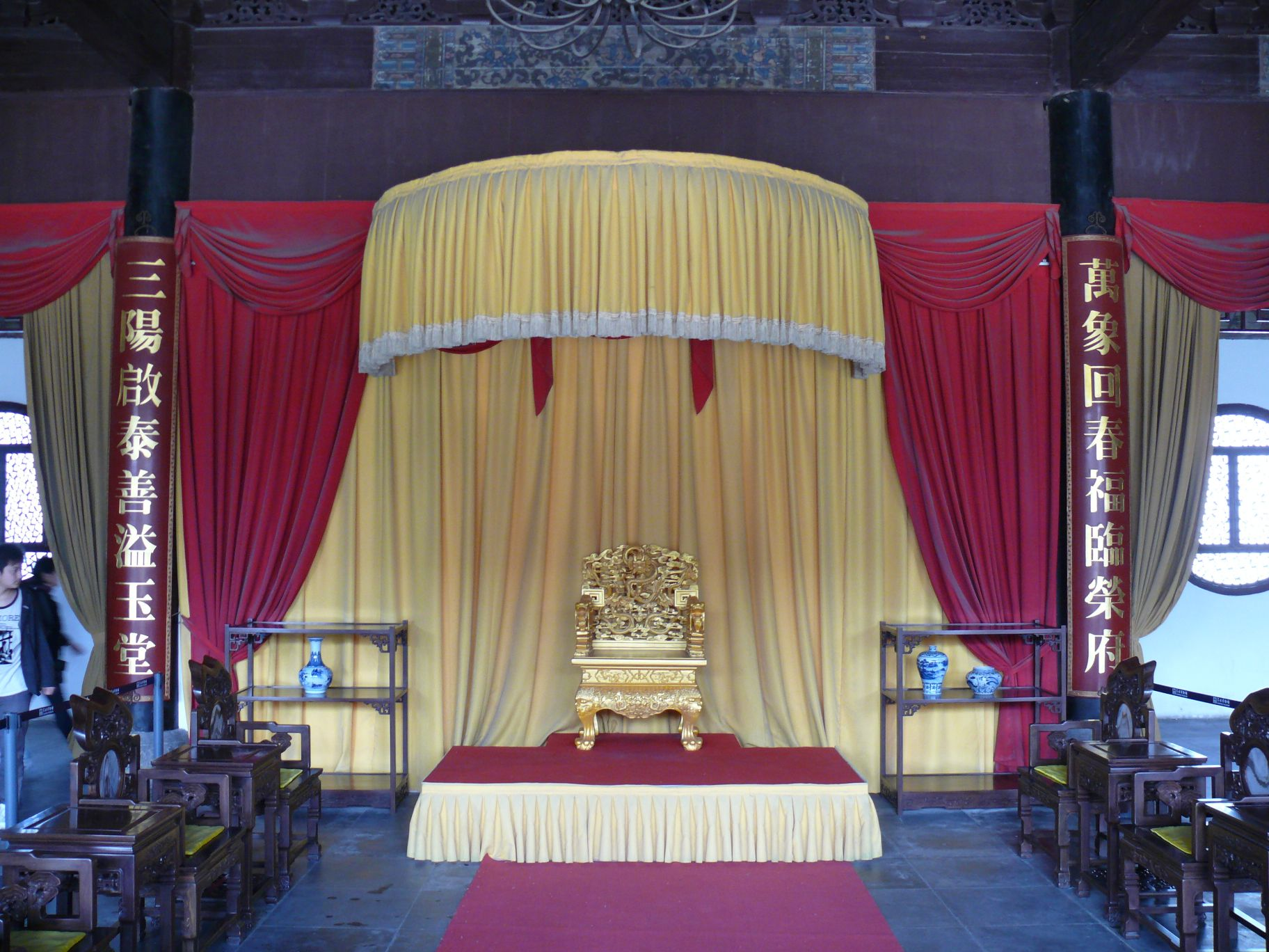 Li Xiucheng's mansion in Suzhou (Jiangsu, China).